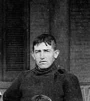 Charles F. Macklin (1871-1945), State adjutant general of Maryland (1912-1916)